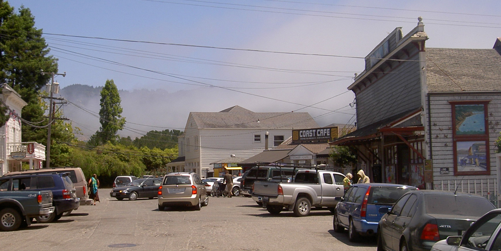 Bolinas street scene on Wharf Road at 37.90976 N 122.6854 W